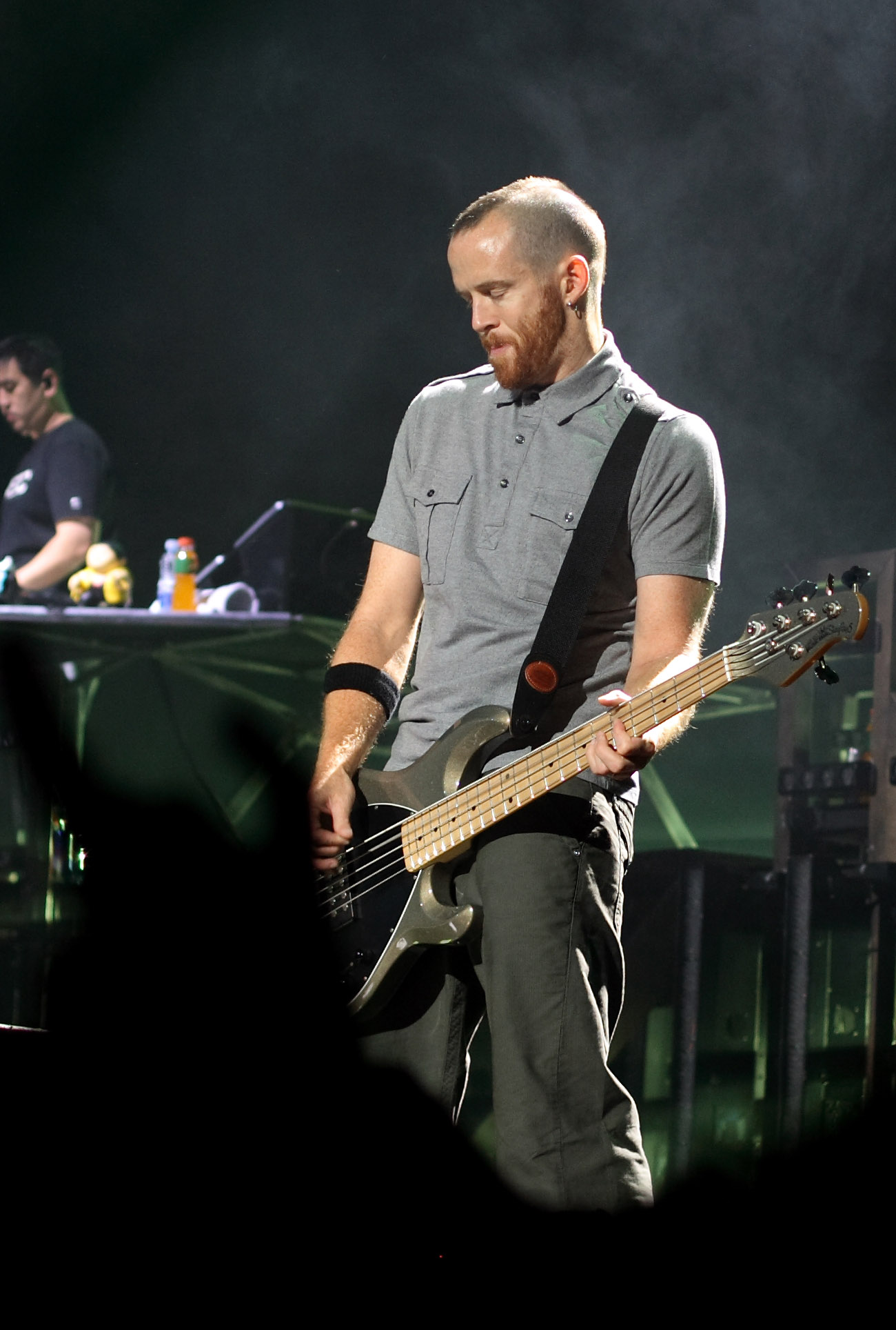 David "Phoenix" Farrell of Linkin Park at The Globe Arena in Stockholm